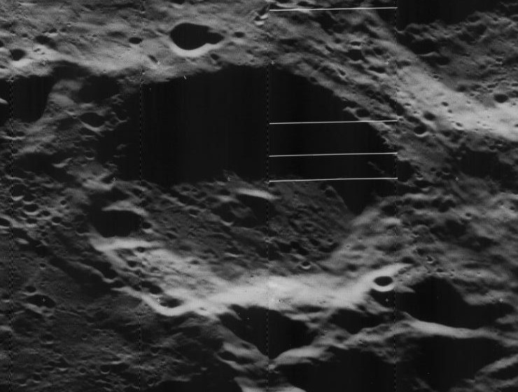 Oblique view of Alter, on the far side of the moon, facing west. White lines are an artifact present on original image.